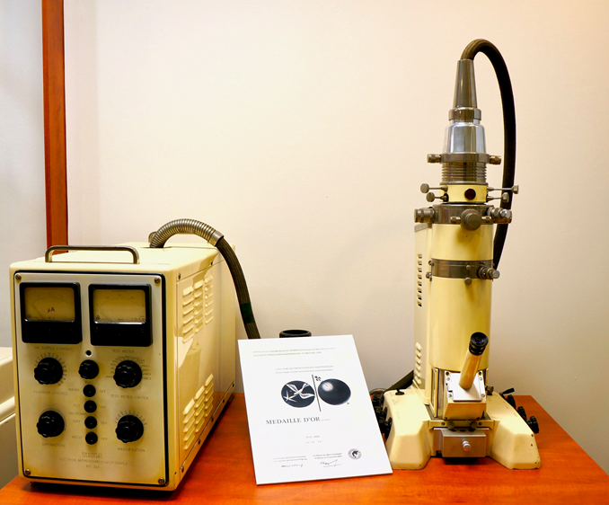 TESLA BS 242